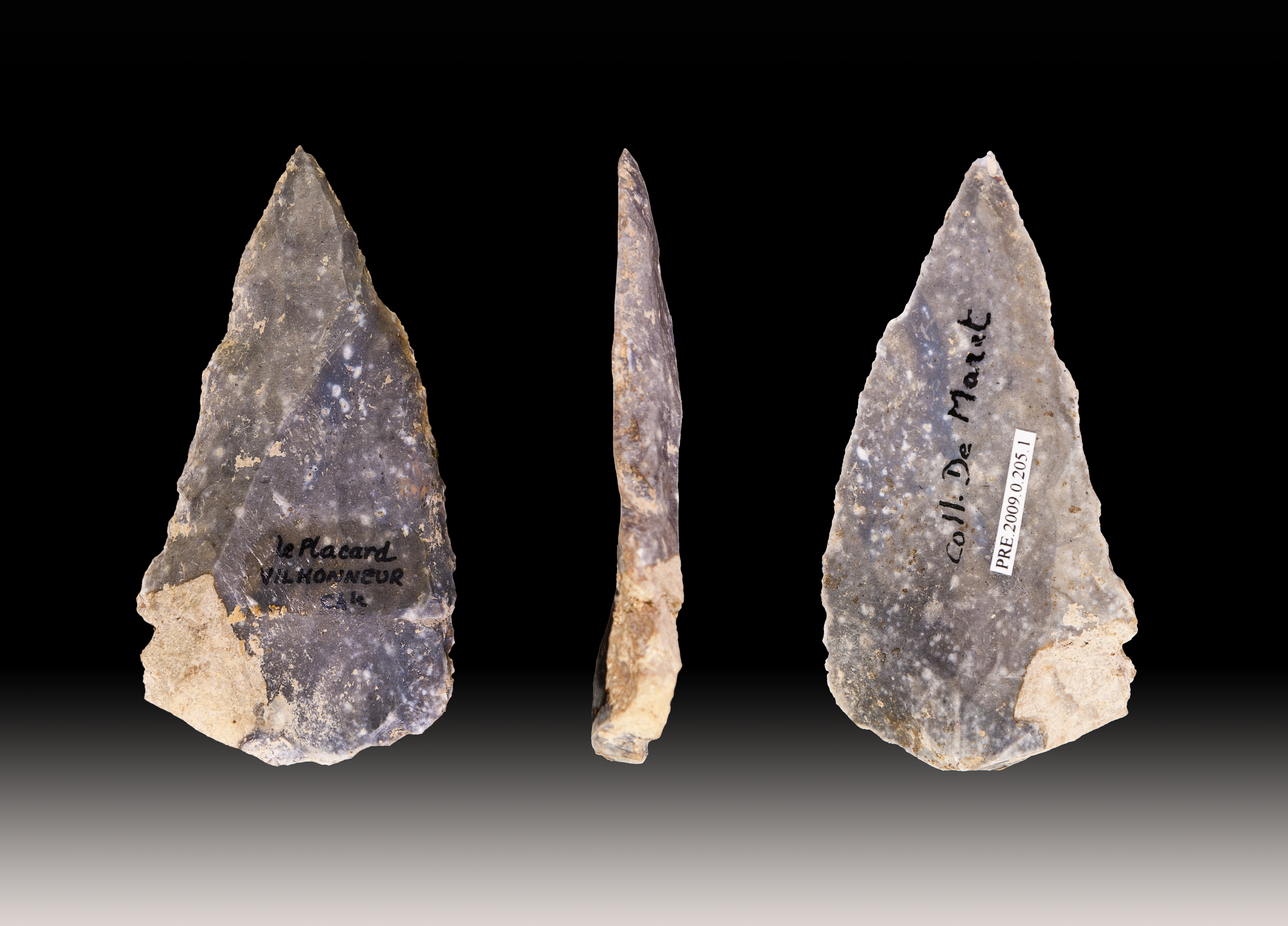 Levallois point - Different views of the same specimen.